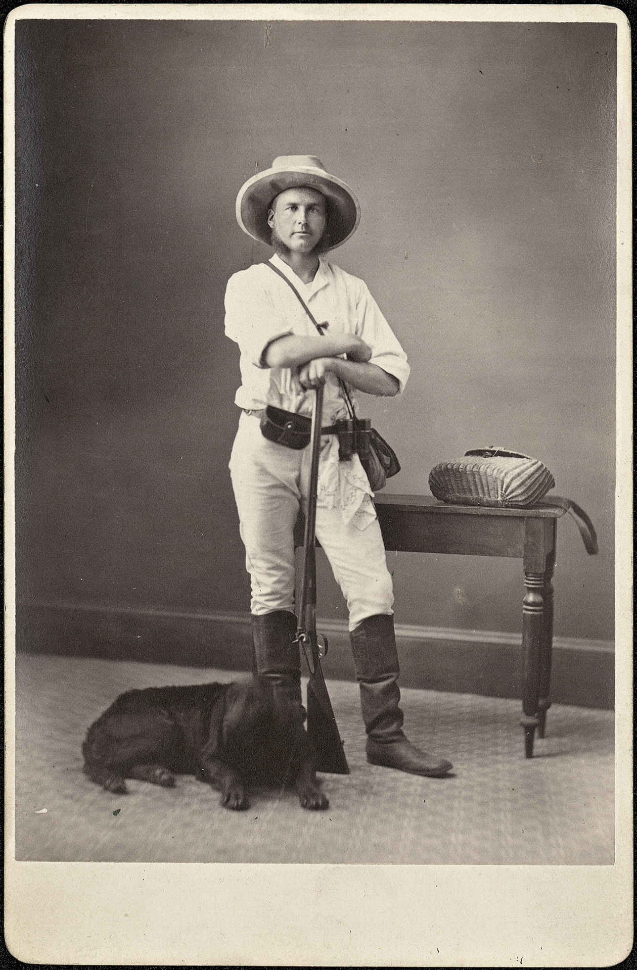 Tittel / Title: Portrett av Carl Sofus Lumholtz (1851-1922) Motiv / Motif: Kabinettkort. Dato / Date: ca 1881 Fotograf / Photographer: J. W. Wilder (Rockhampton) Sted / Place: Australia, Queensland, Rockhampton Eier / Owner Institution: Nasjonalbiblioteket / National Library of Norway Lenke / Link: Bildesignatur / Image Number: blds_01872